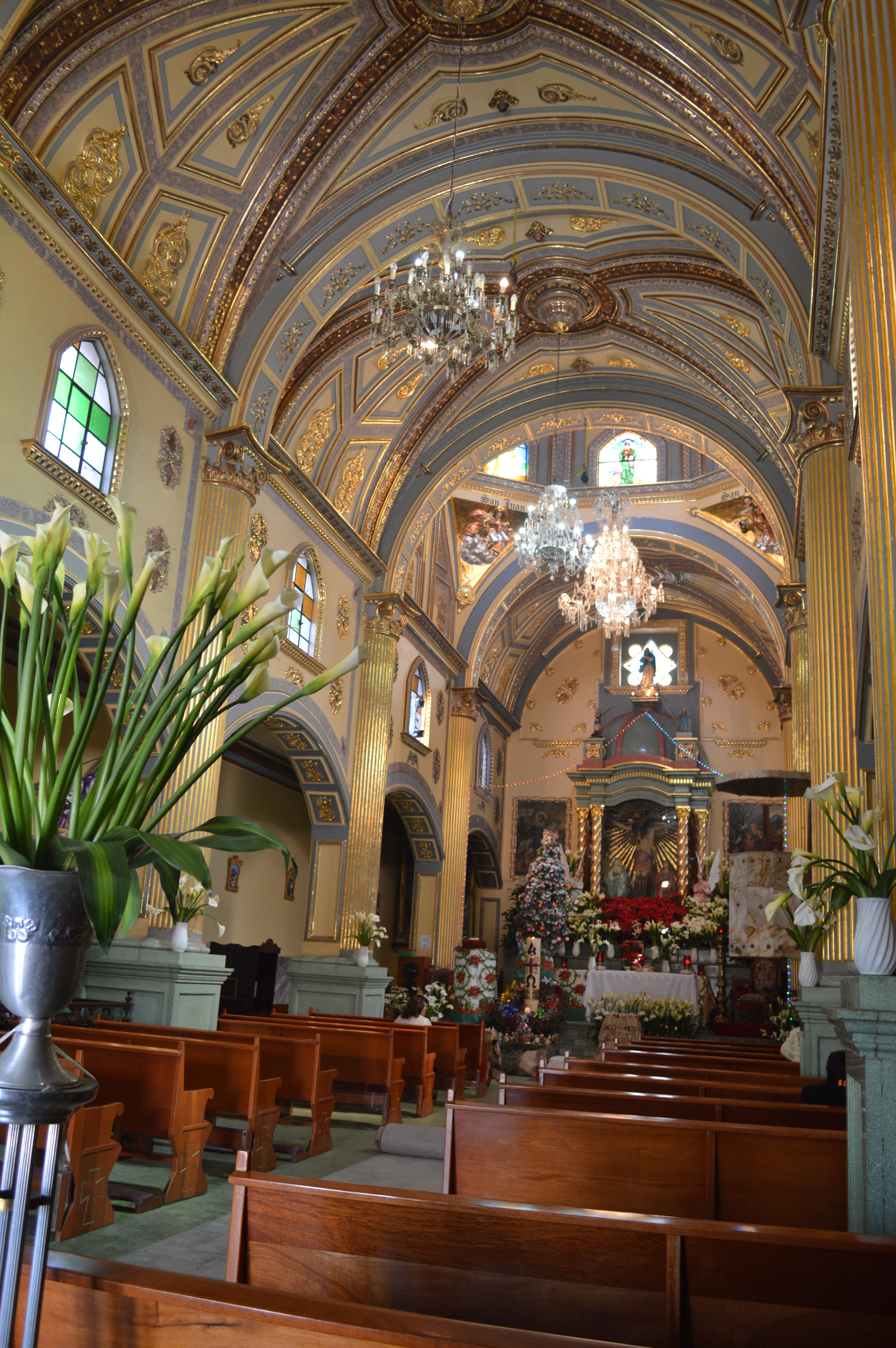 Inside the parish of Santiago Zapotitlan, Tlahuac, Mexico City